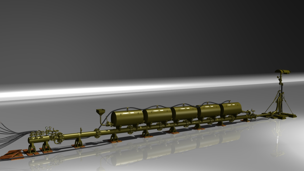 This image show the Livens Large Gallery Flame Projector.